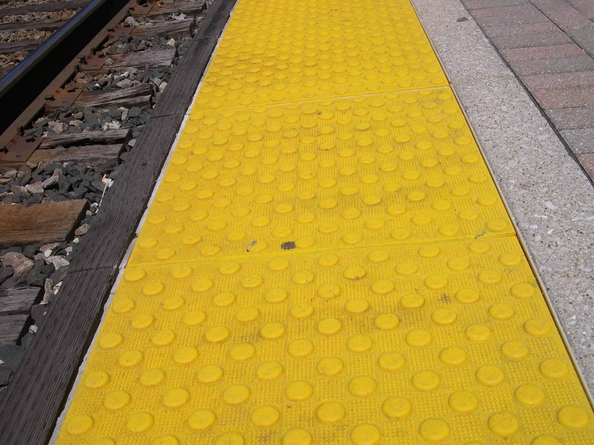 Accessible train station